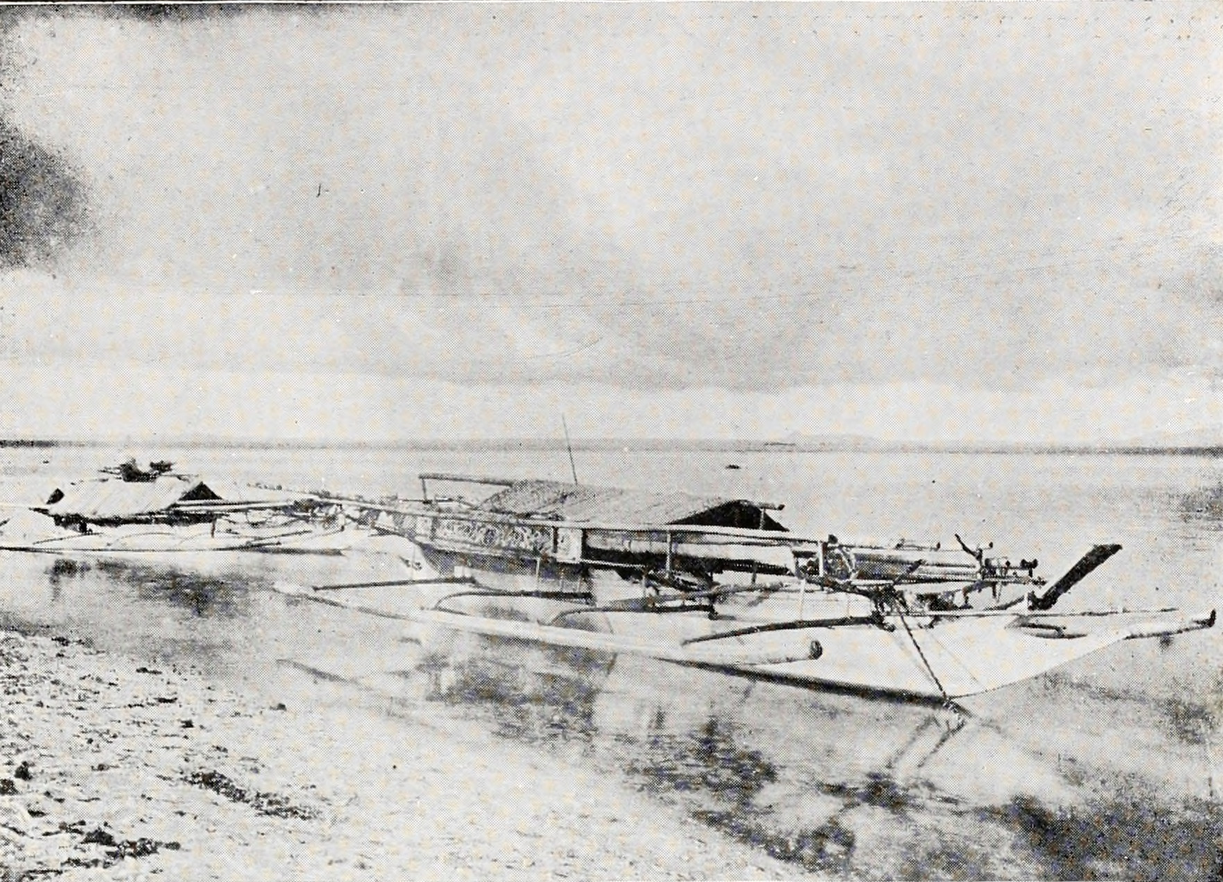 Two large Moro vintas from Mindanao, Philippines, in the houseboat (palau) configuration